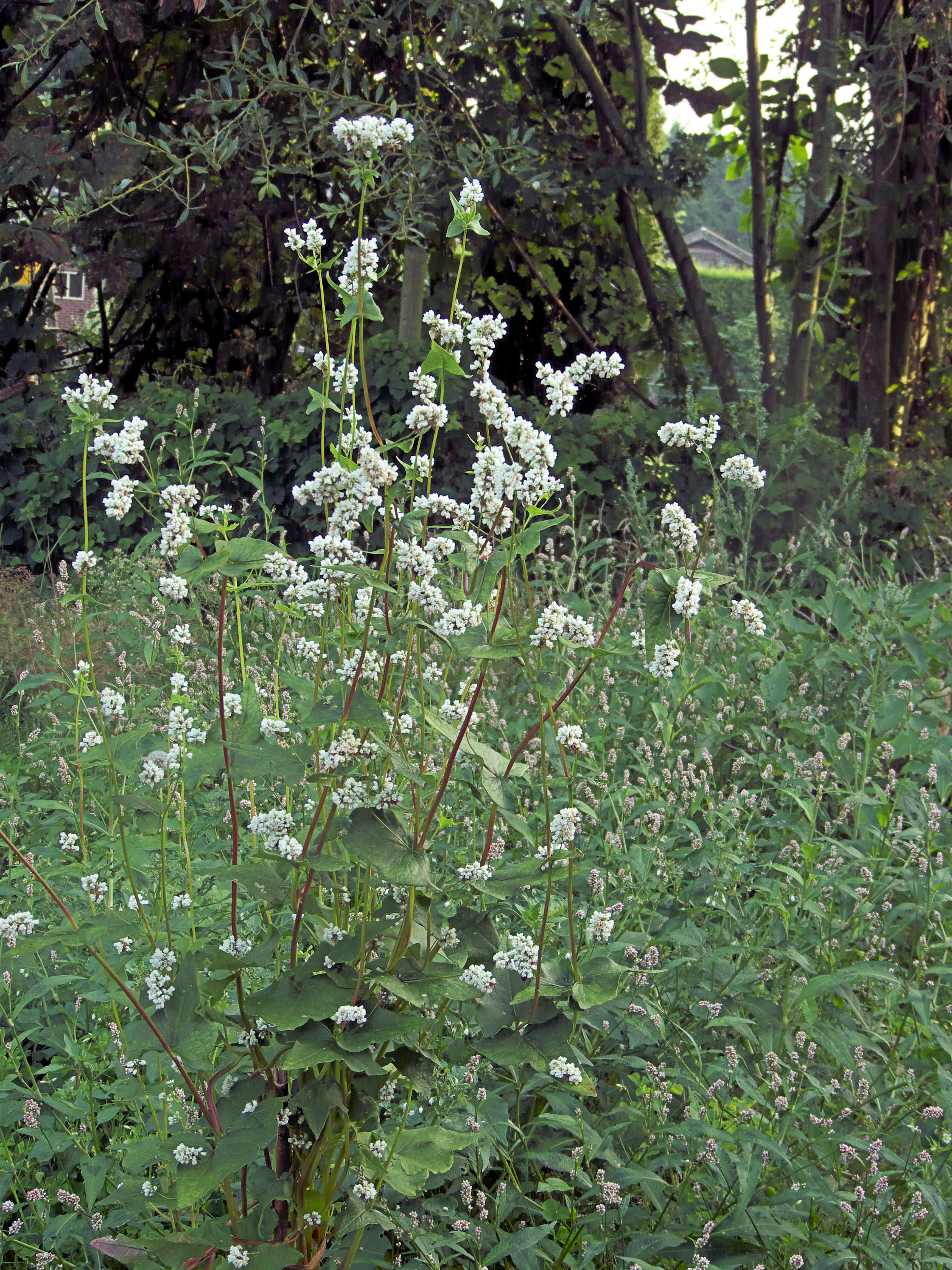 Fagopyrum esculentum